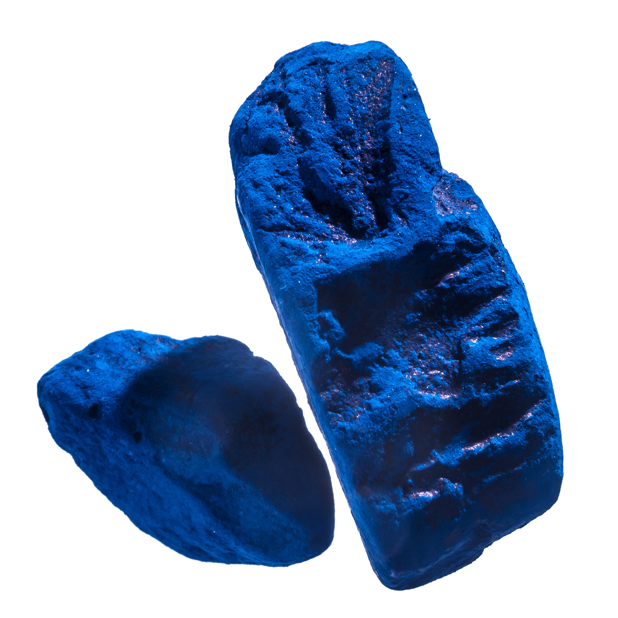 Cake of indigo. Large piece approx. 2 cm. Used as indigo dye (blue jeans).